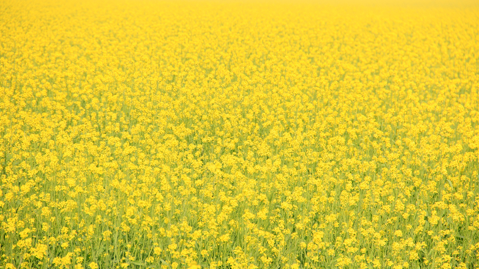 Mustard fields